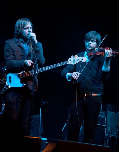 Broken Records at the Old Fruitmarket during Celtic Connections.